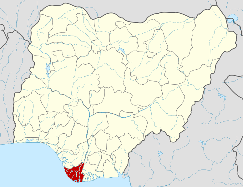 Map locator of Nigeria.